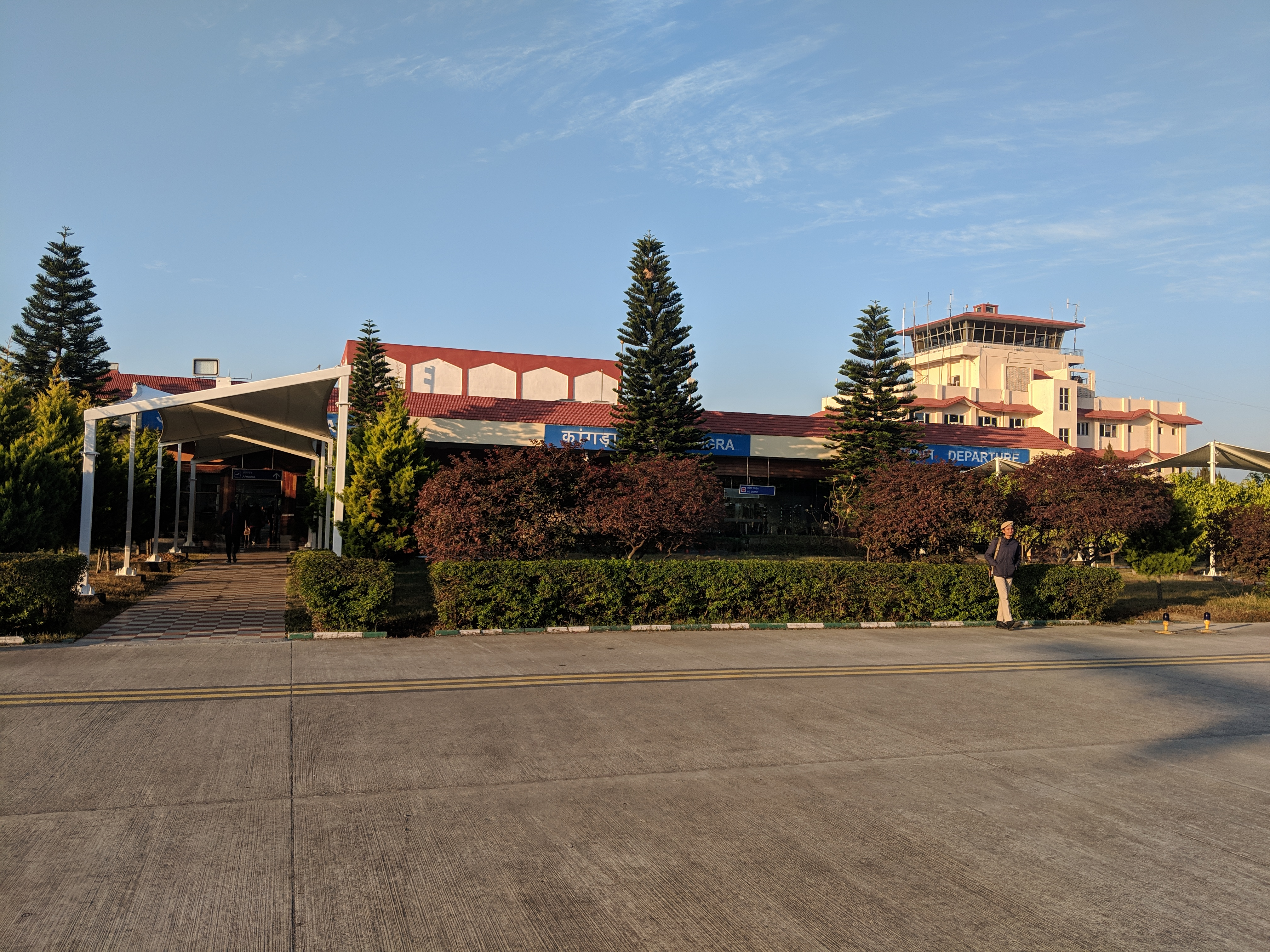 Kangra Airport Terminal